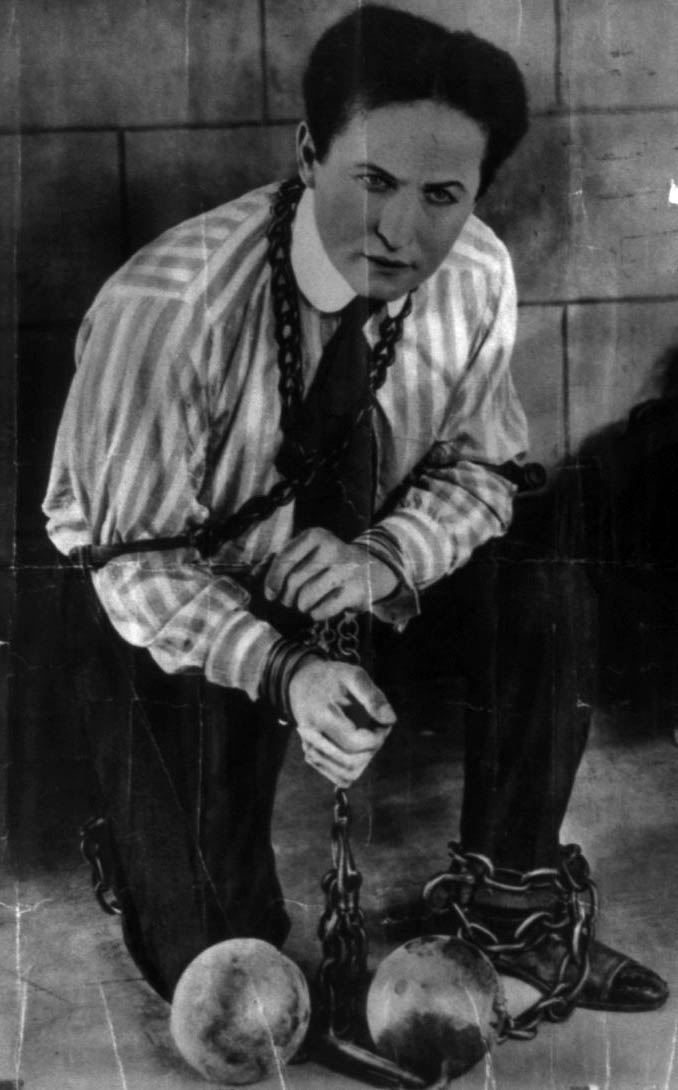 Harry Houdini (1874–1926), Stone walls and chains do not make a prison --- for Houdini